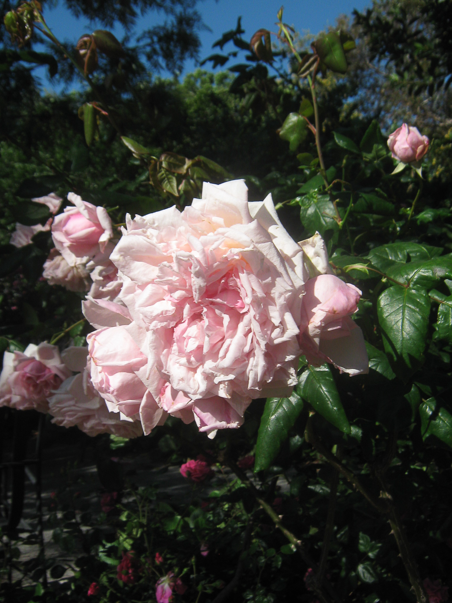 Rose 'Lady Medallist', Hybrid Tea by Alister Clark 1912; Photographed in the Alister Clark Memorial Rose Garden, Bulla, Victoria